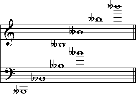 Notes, B Double Flat